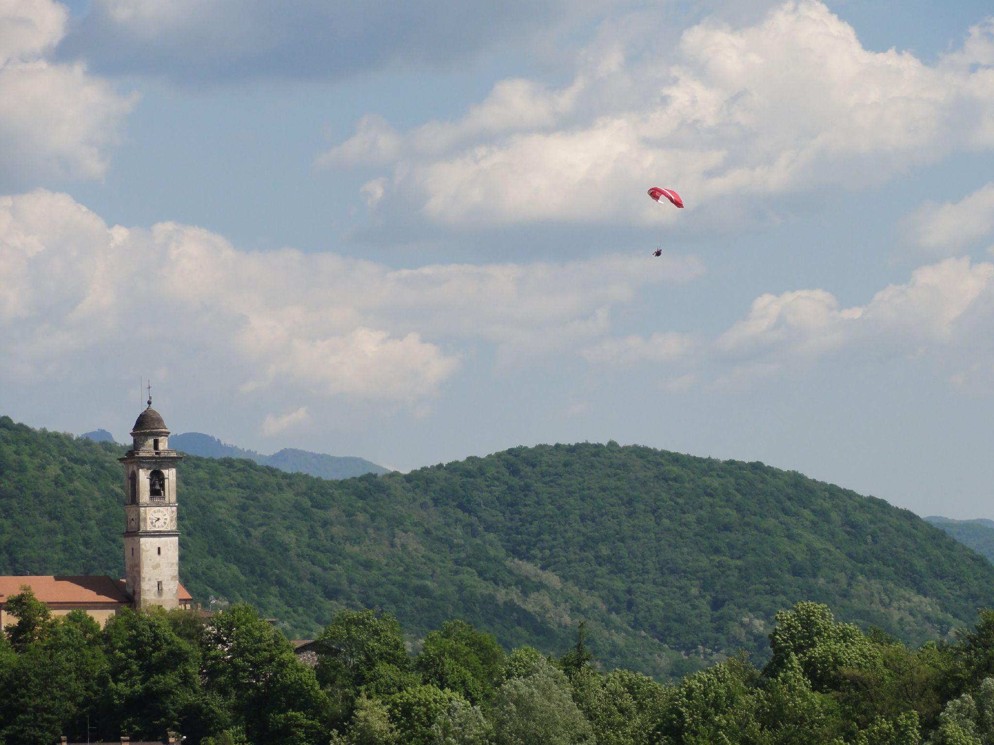 Sessa, Ticino, Switzerland